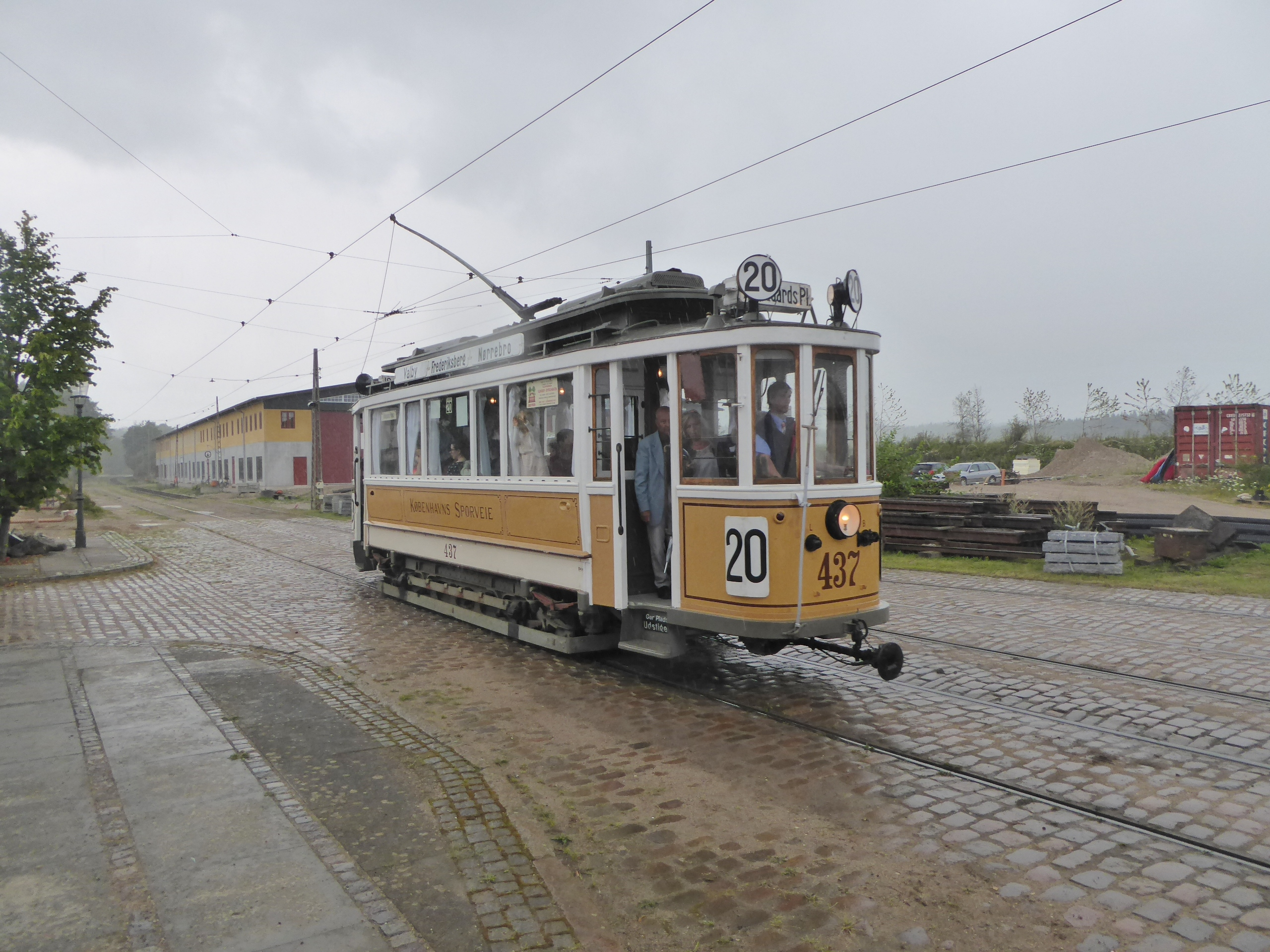 Old tram from Copenhagen, KS 437, at Sporvejsmuseet Skjoldenæsholm in Denmark.